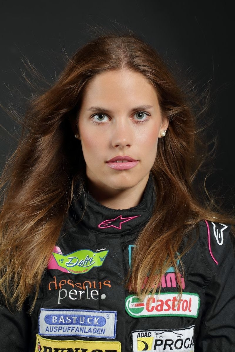 Portrait